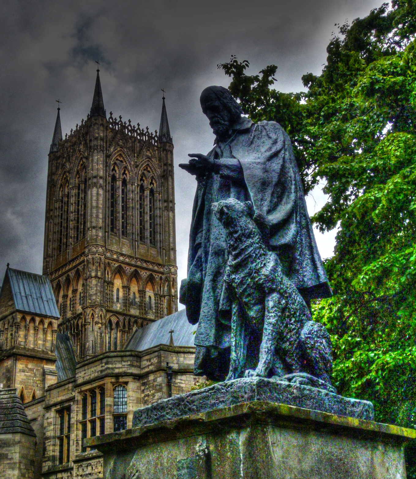 Sculpture by George Frederic Watts (1817- 1904) of Lord Tennyson beside the Lincoln Cathedral. Tonemapped HDR from three images.